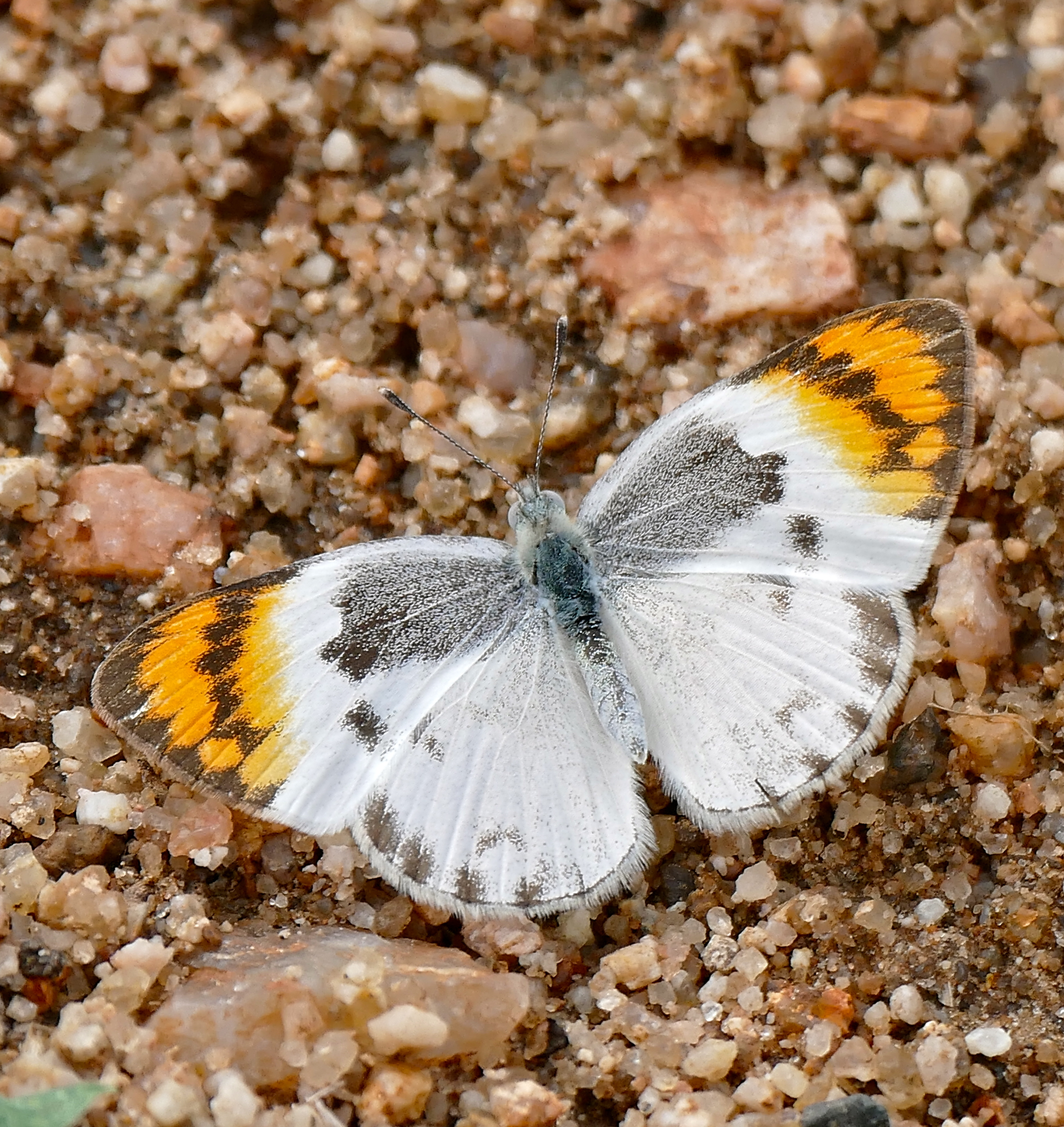 Female of the nominate subspecies of the Common orange tip at Mathekenyane, a granite outcrop near the H1-1 tourist road south of Skukuza, in the Kruger National Park, Mpumalanga, SOUTH AFRICA. The lack of extensive swarthy wing markings on this specimen suggests the dry season form, f. deidamoides, despite being photographed in November. The larvae of the species feeds on Boscia albitrunca, which is present at Mathekenyane, and Capparis spp., both plants that occur in mesic to arid areas.